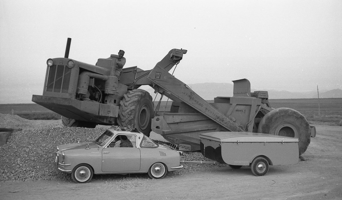 Aanleg van een weg, Goggomobil meets Letourneau Westinghouse Model C, Perzië, 1958 Foto Wim Dussel, collectie IISG, Amsterdam